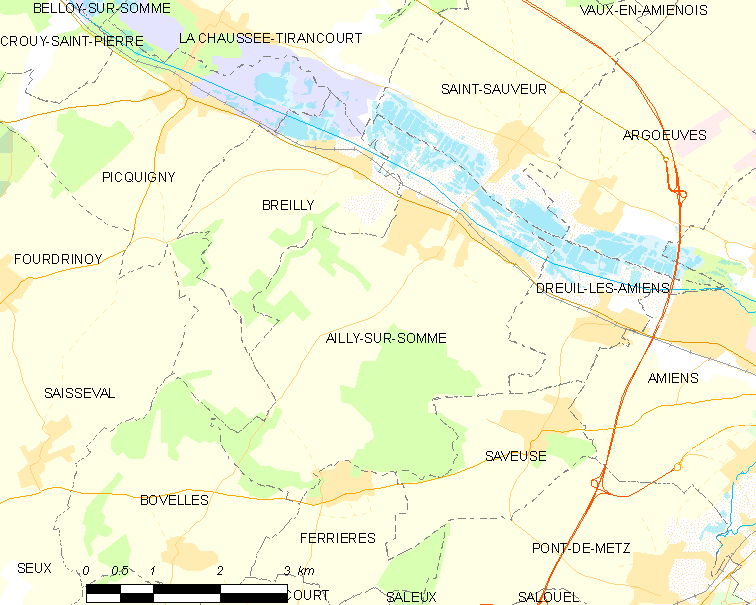 Map of French municipality Ailly-sur-Somme